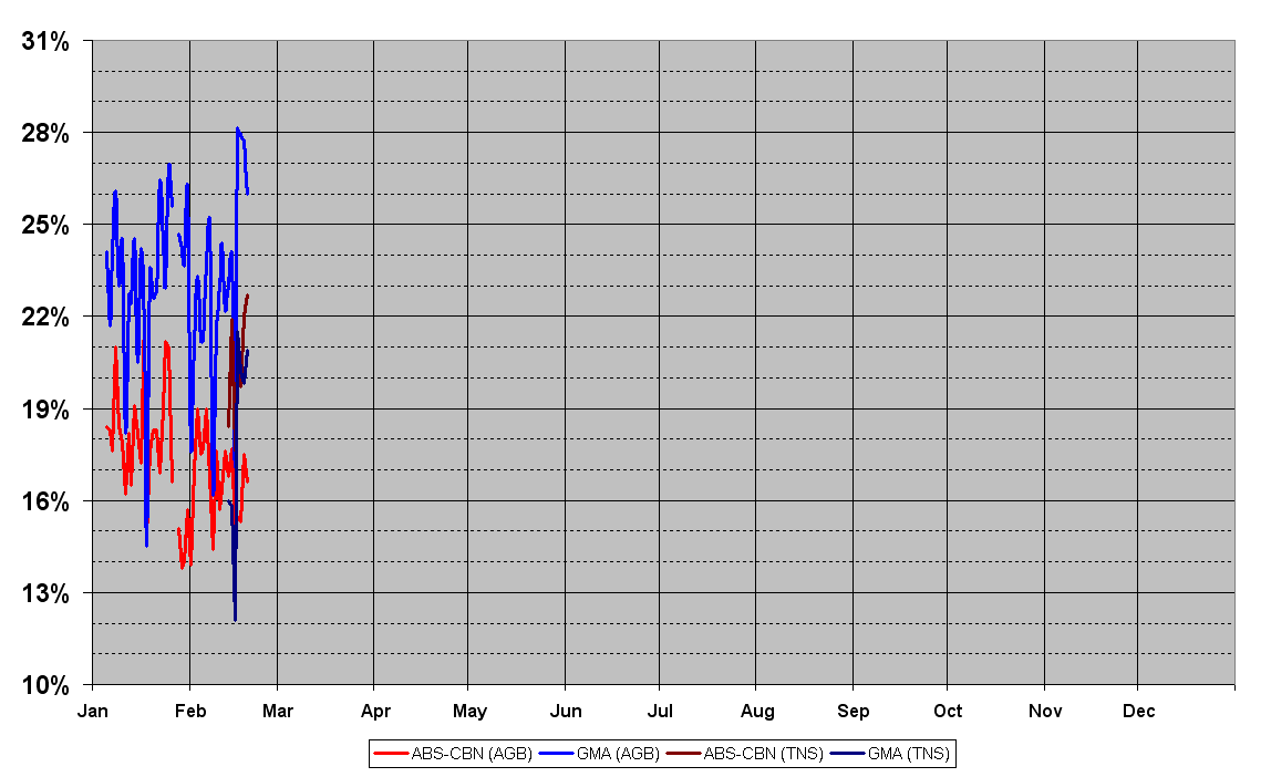 Non-primetime television ratings for 2008 in the Philippines: GMA: Blue (AGB Nielsen) and dark blue (TNS) ABS-CBN: Red (AGB Nielsen) and dark red (TNS) The charted points represented the TV program that had the highest rating for that station for that day.